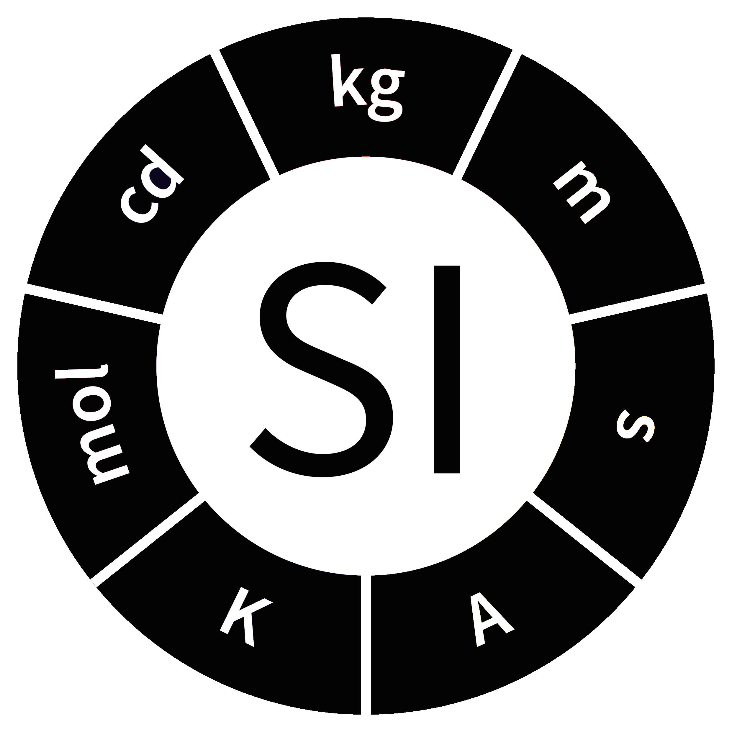 Logo of the Intenational System of Units that was introiduced in May 2019.